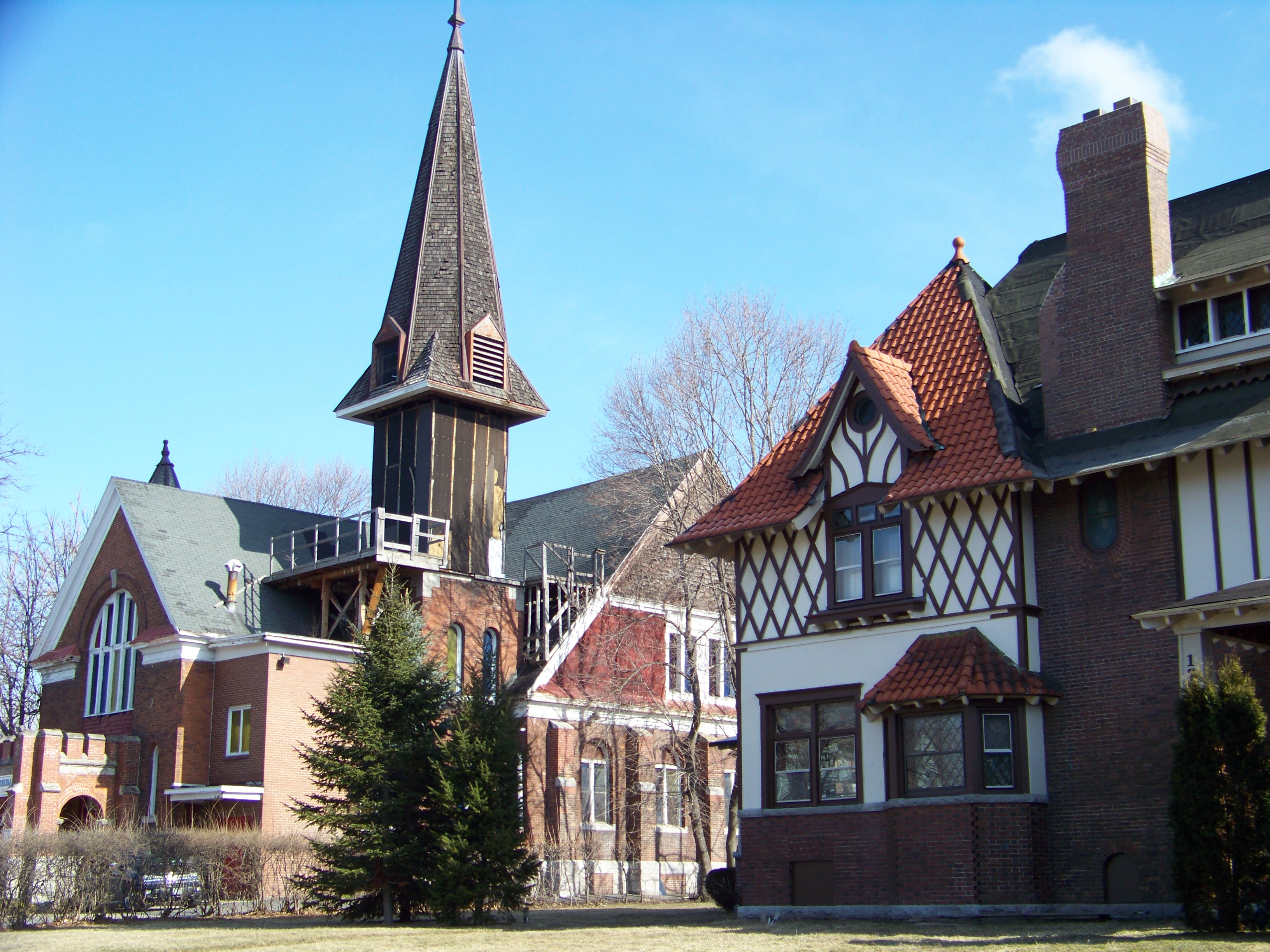 1709 South Salina Street and the church next door; part og the South Salina Street Historic District, Syracuse, New York.